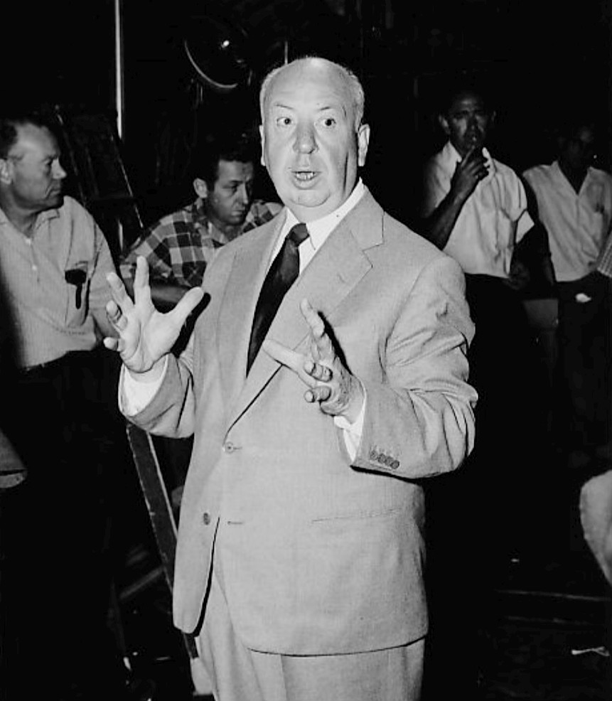 Photo of Alfred Hitchcock on the set of his new television program, Alfred Hitchcock Presents.